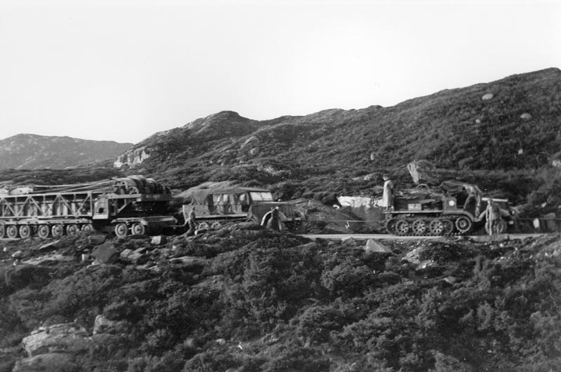 German transport of heavy crane used on various places during World War II. This particular crane is on its way up to Fjell festning, or MKB 11/504, a German coastal fortress on Sotra, outside Bergen, Norway. The crane was used for construction and fitting of the B-tower from the battleship "Gneisenau". Three vehicles (two of which can be seen in this picture) was used to tow the crane up to the aera where the fortress was being built. The picture is from December 1942, possibly 20 December 1942. The two Half-Tracks on the picture used for hauling the trailer with the heavy crane are Sd.Kfz. 7 (left) and Sd.Kfz. 6 (right).